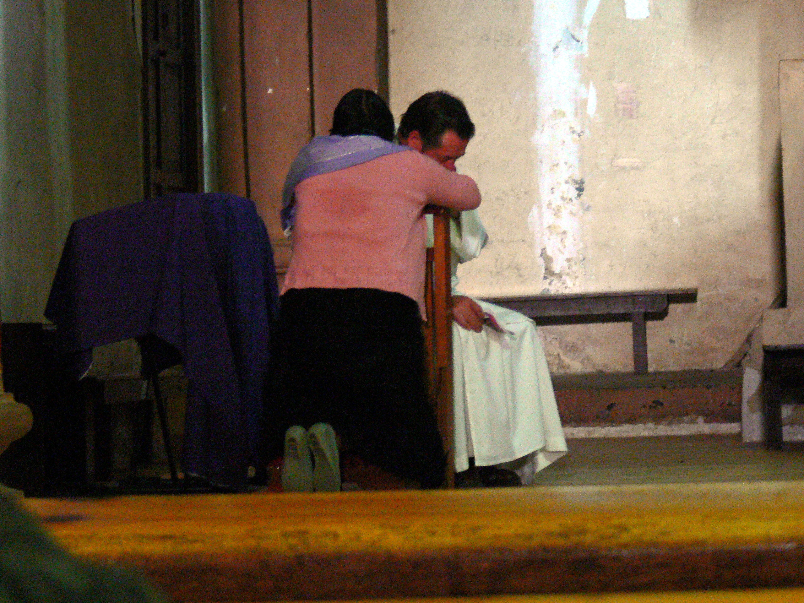 Santo Domingo. Confession of a woman.